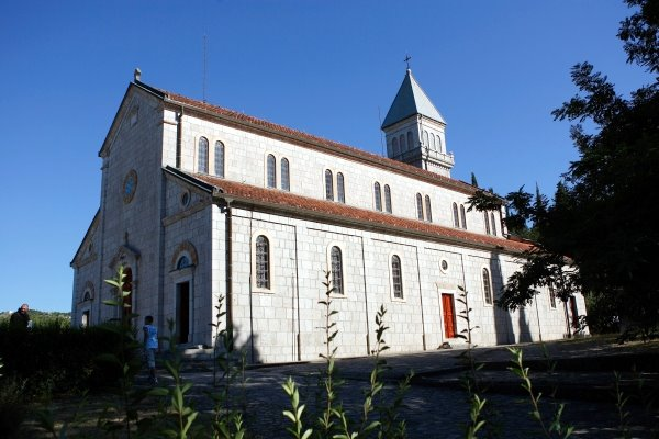 St. Michael church , Drinovci